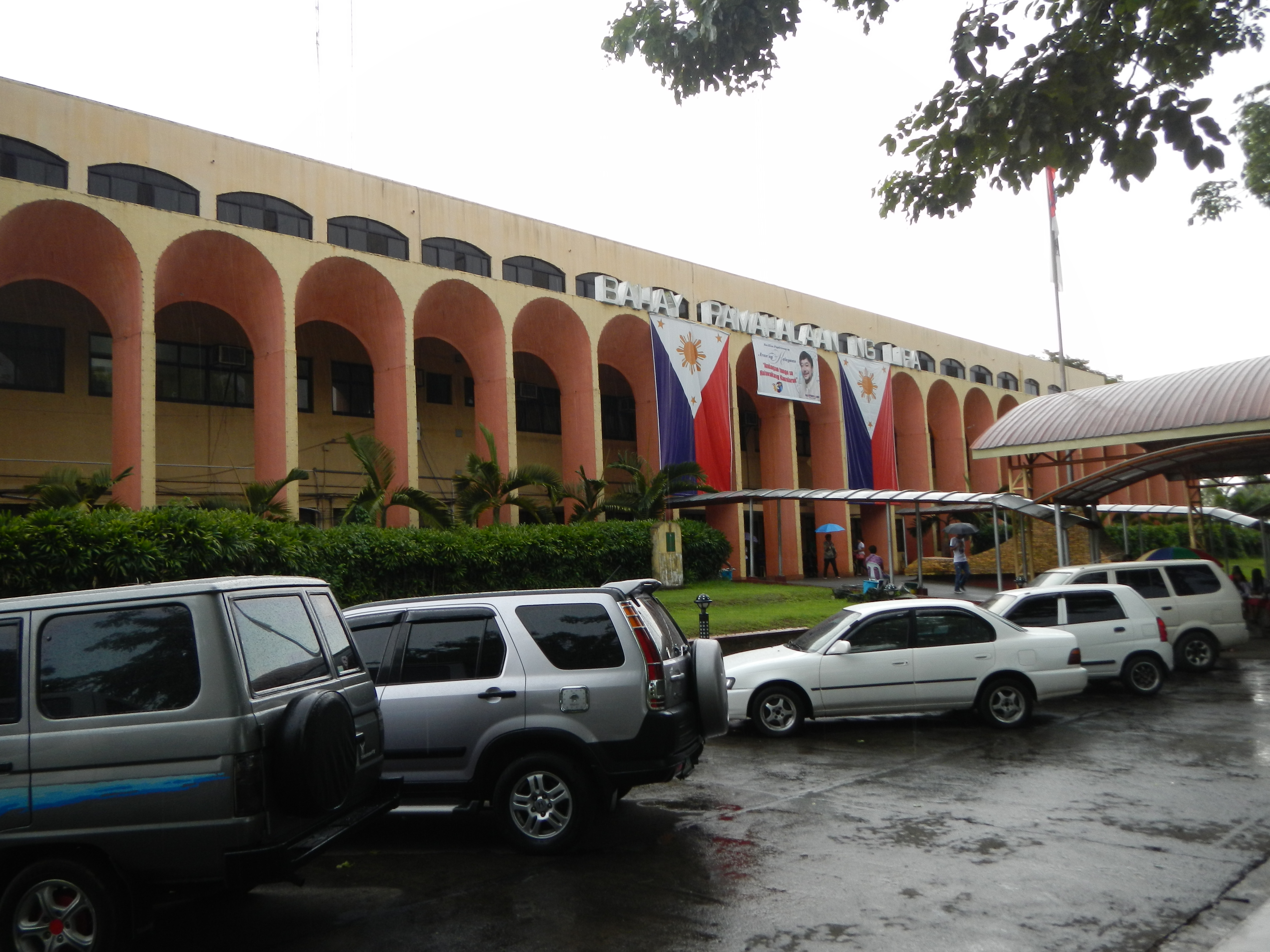 Lipa City Hall[1] [2] Coordinates: 13°57'26"N 121°9'52"E [3] Lipa City Giant Map Constructed under Mayor Vilma Recto showing Lipa City Map on the grounds of City Hall. Coordinates: 13°57'27"N 121°9'54"E - Sangguniang Panglungsod - City Session Hall, Legislative department of the City government